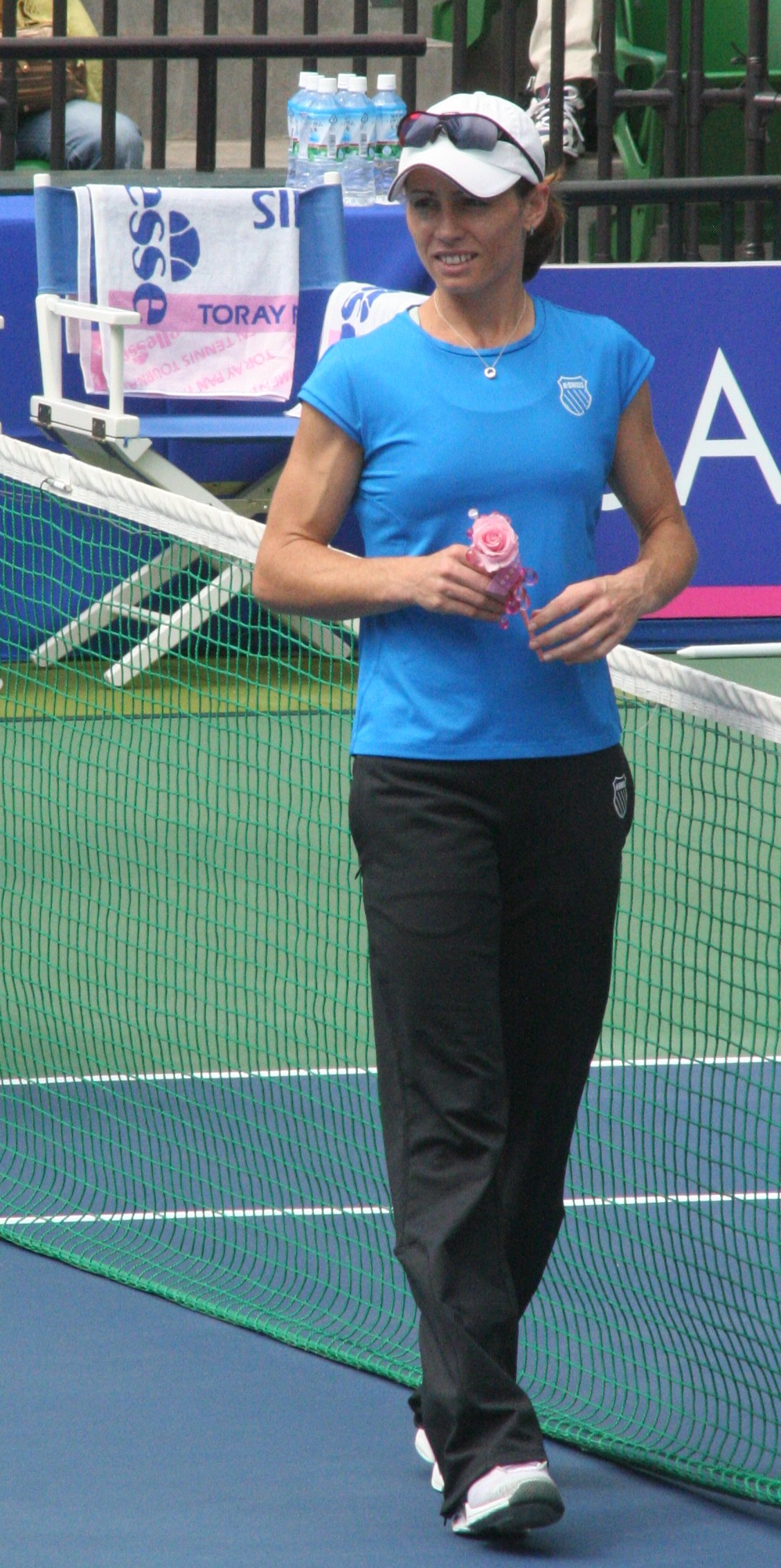 Zimbabwean Tennis player Cara Black during the retirement ceremony for her colleague Ai Sugiyama on the opening day of the Toray Pan Pacific Open 2009 in Tokyo.